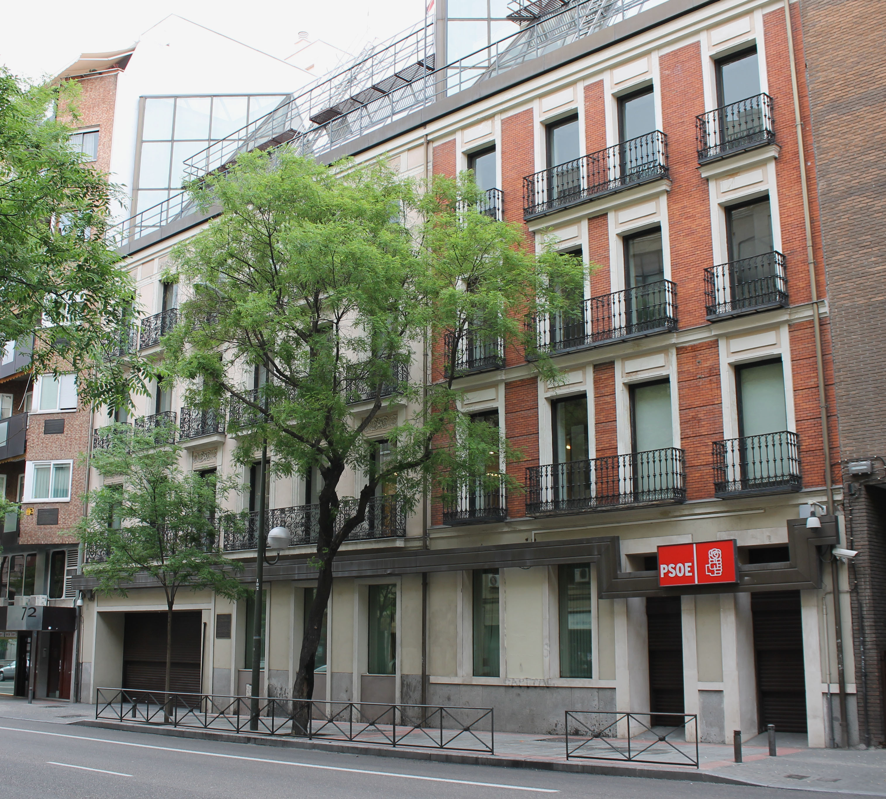 Headquarters of the Spanish Socialist Workers' Party (PSOE), at 70 Calle de Ferraz (street) in Madrid.